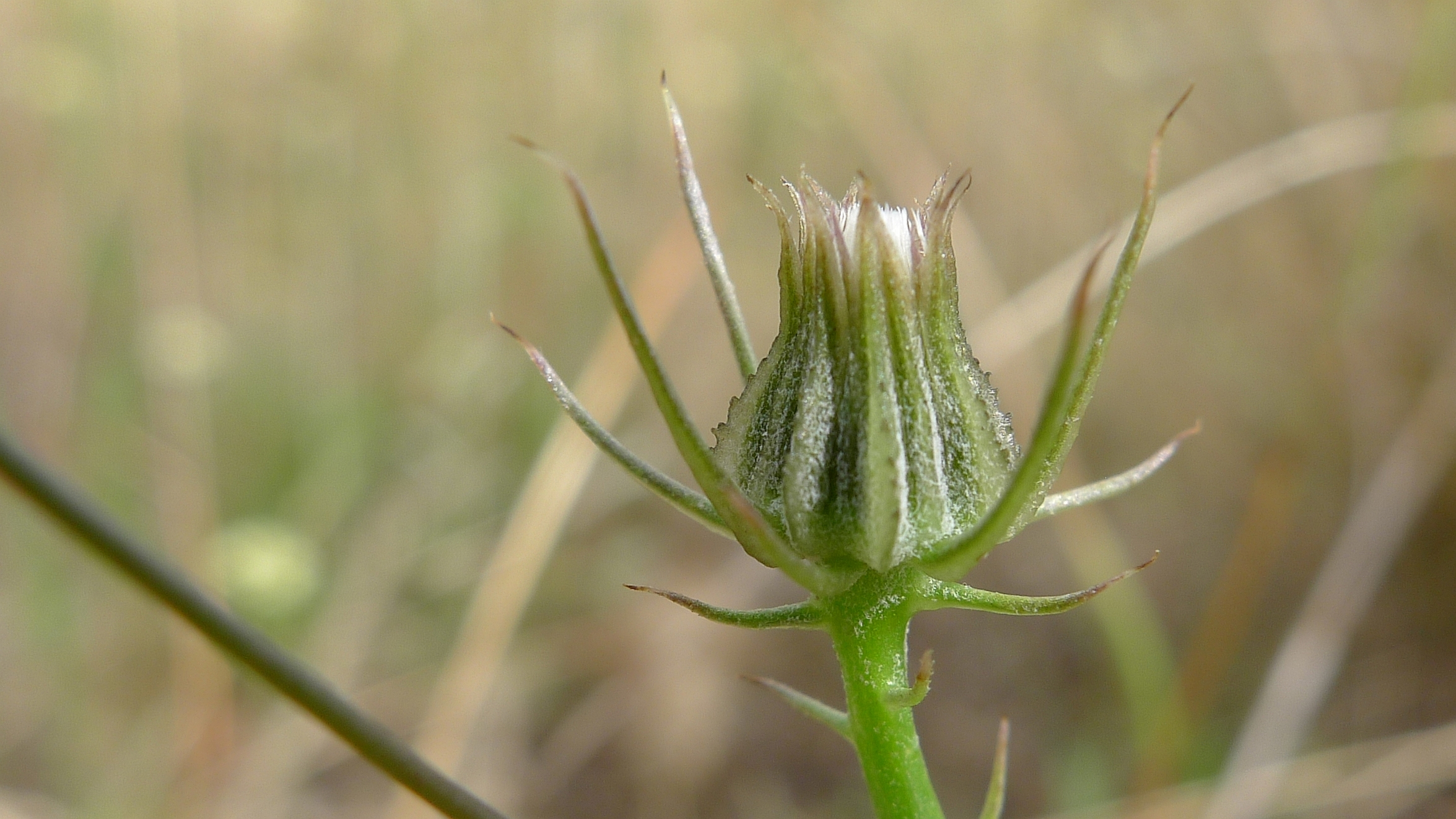 Yellow Hawkweed, Tolpis barbata. Gundaroo Common, Gundaroo NSW Australia, December 2011.